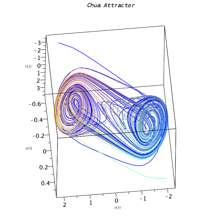 Chua circuit Maple 3d plot